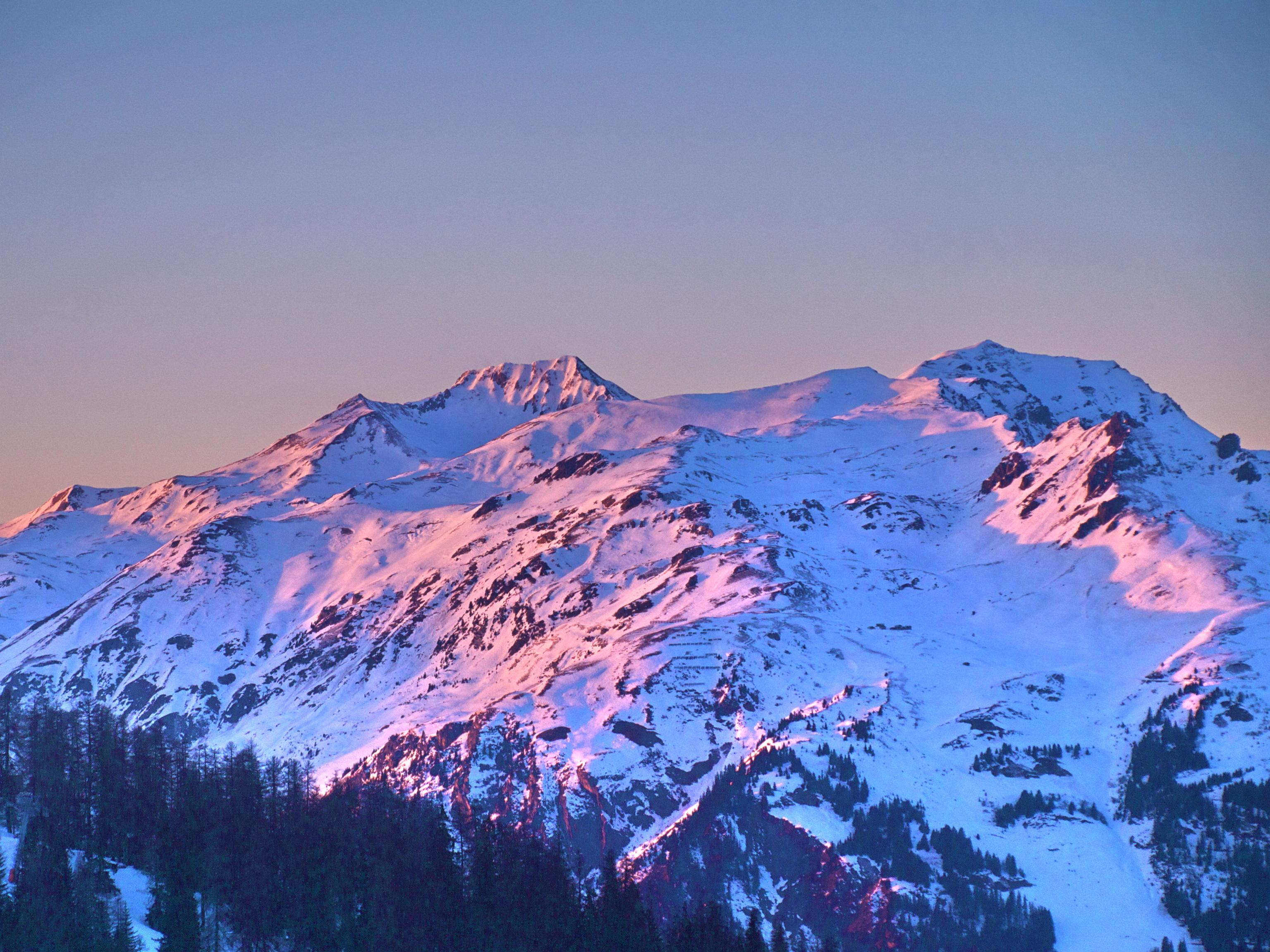 A view of La Plagne mountain in France during the winter of 2008.